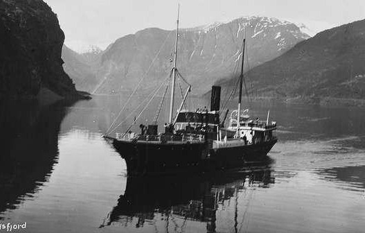 Norwegian steamship SS Fjalir, built in 1858. Picture is taken in Aurlandsfjorden